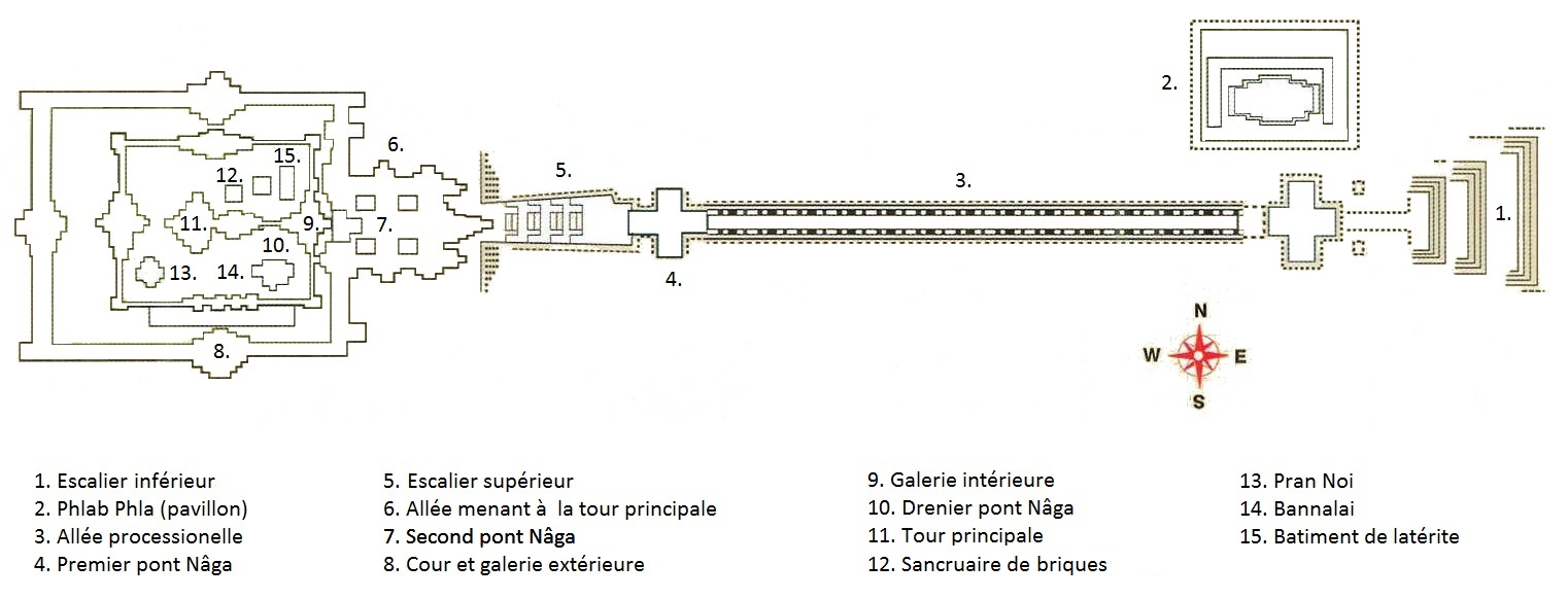 PHANOM RUNG historical park